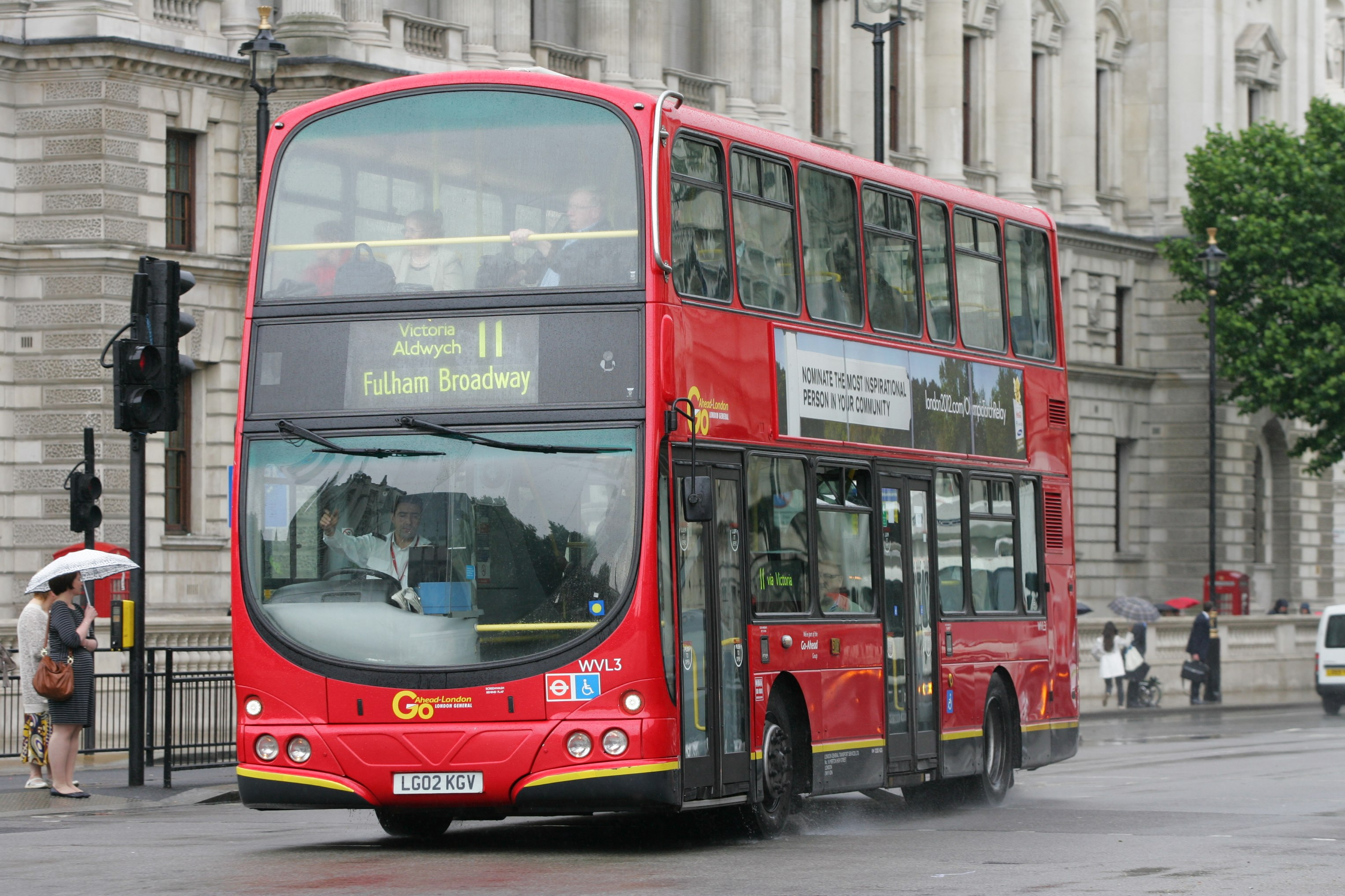 London General bus WVL3 (reg. LG02 KGV), a 2002 Volvo B7TL double-decker with Wrightbus Eclipse Gemini bodywork, operating London Buses route 11.